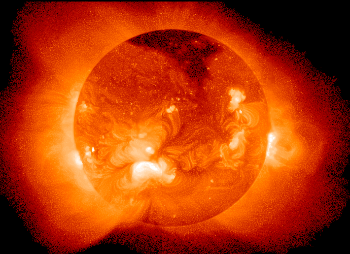 This image shows the Sun as viewed by the Soft X-Ray Telescope (SXT) onboard the orbiting Yohkoh satellite. The bright, loop-like structures are hot (millions of degrees) plasma confined by magnetic fields rooted in the solar interior. An image of the sun in visible light would show sunspots at the feet of many of these loops. The halo of gas extending well beyond the sun is called the corona. The darker regions at the North and South poles of the Sun are coronal holes, where the magnetic field lines are open to space and allow particles to escape.